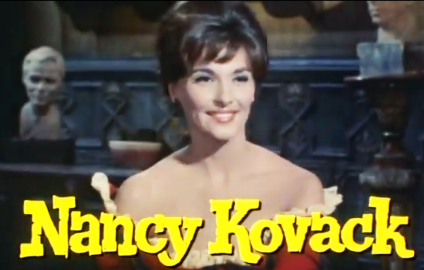 Nancy Kovack in trailer to "Diary of a Madman" (1963)